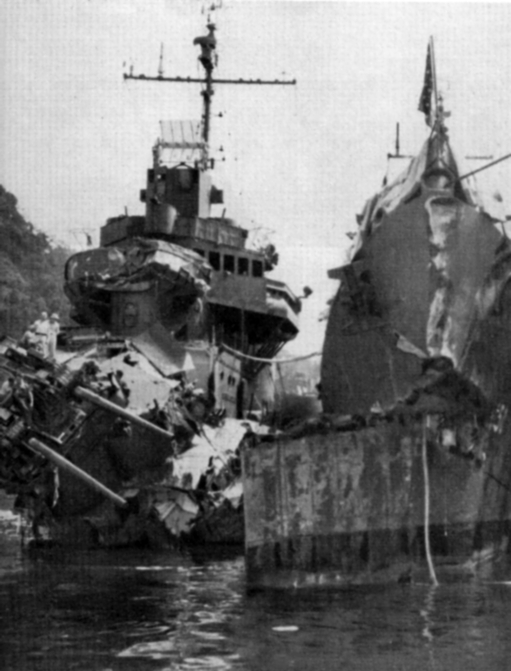 The U.S. Navy destroyers USS Selfridge (DD-357), left, and USS O'Bannon (DD-450) damaged at Noumea, Espiritu Santo, after the naval Battle of Vella Lavella, on 7 October 1943. Selfridge´s bow was torn off by a Japanese torpedo (note sailors climbing in the wrecked gun turret). O'Bannon collided with USS Chevalier (DD-451) during the battle, after Chevalier had been hit by a torpedo (she had to be sunk later).